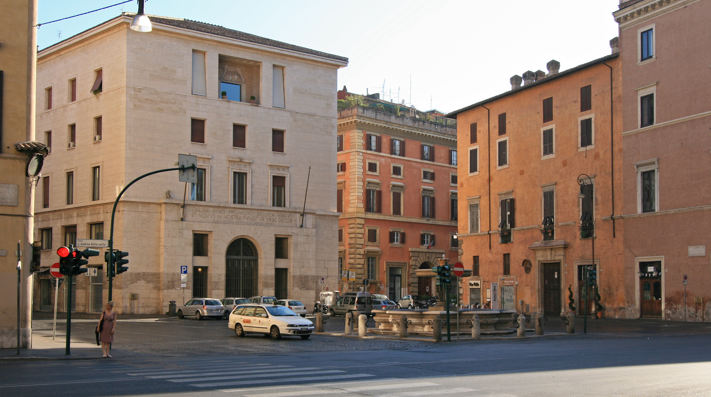 Piazza di Sant'Andrea della Valle, Rome.